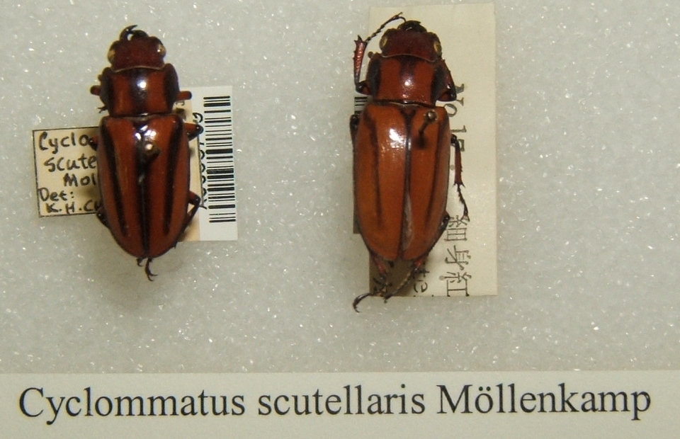 Cyclommatus scutellaris adult taken by Shawn Hanrahan at the Texas A&M University Insect Collection in College Station, Texas.